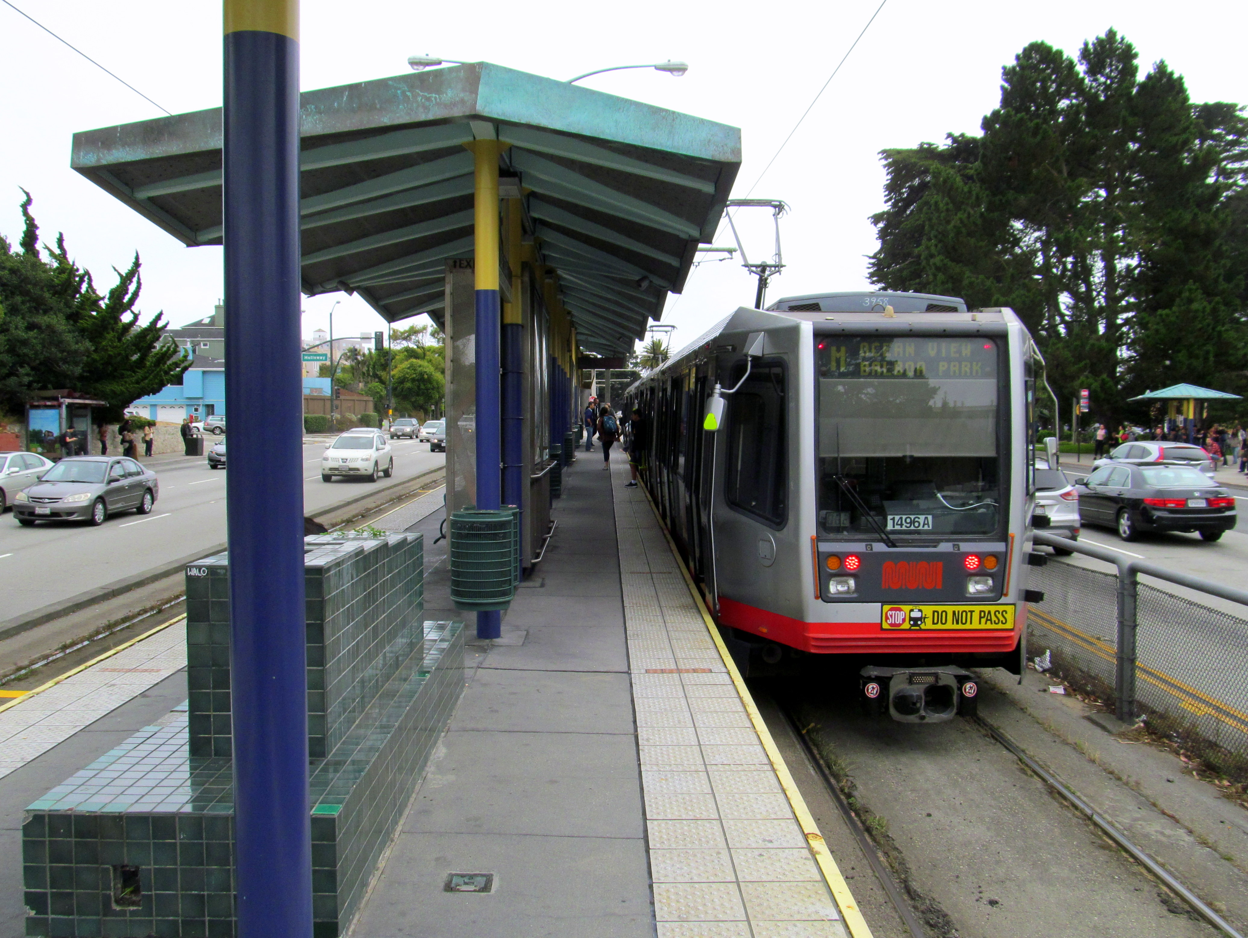 Outbound train at SFSU station in July 2017